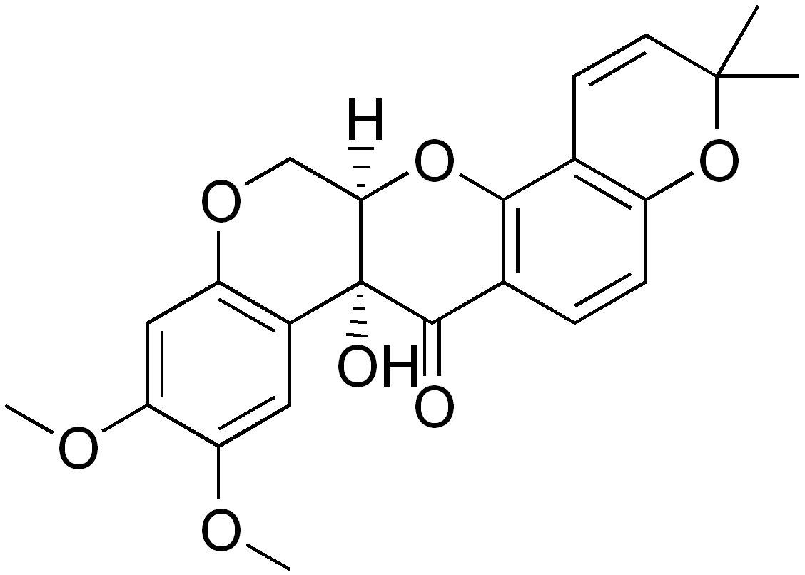 chemical structure of tephrosin